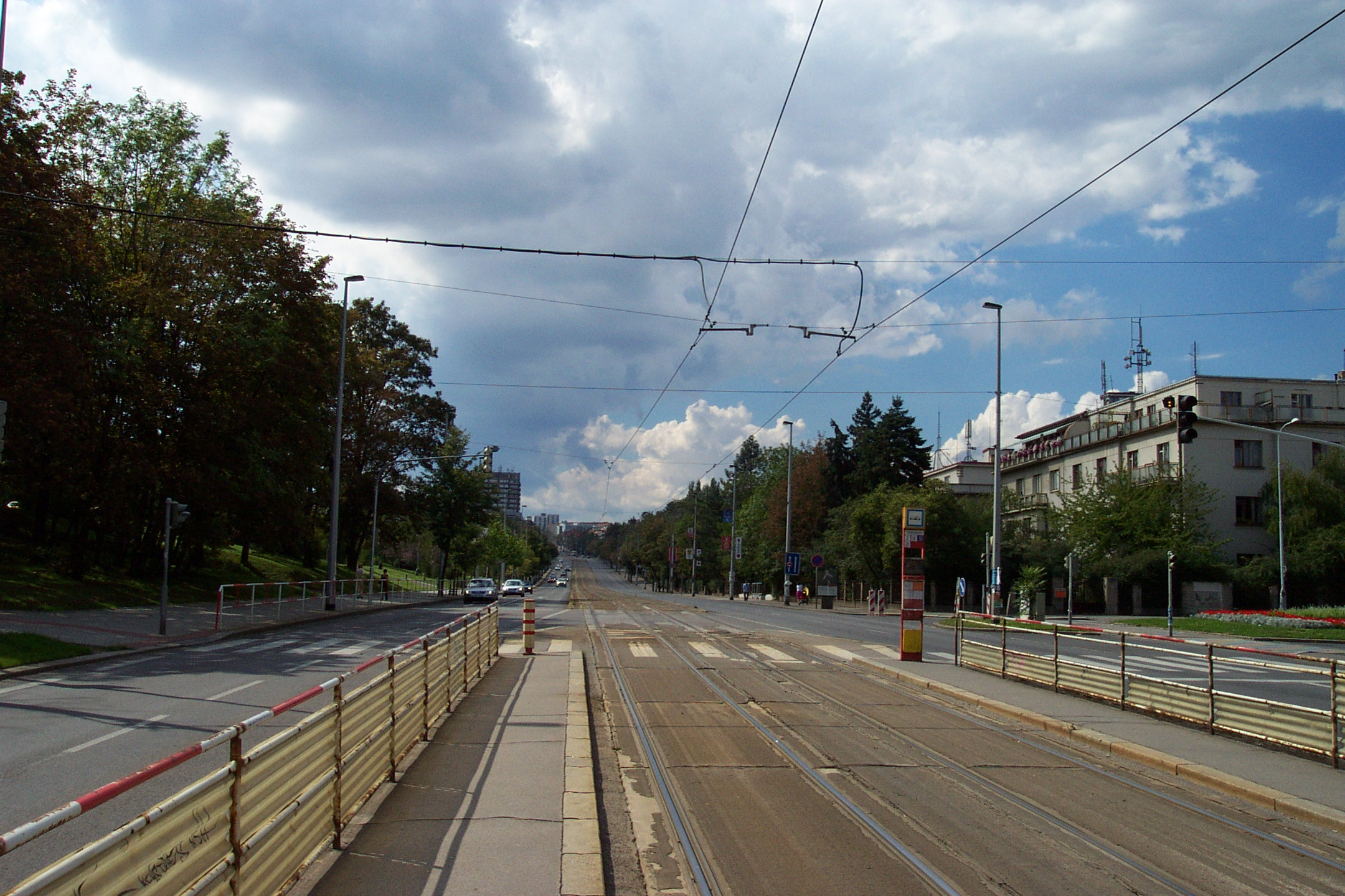 Dejvice, Evropská street in Prague, CZ